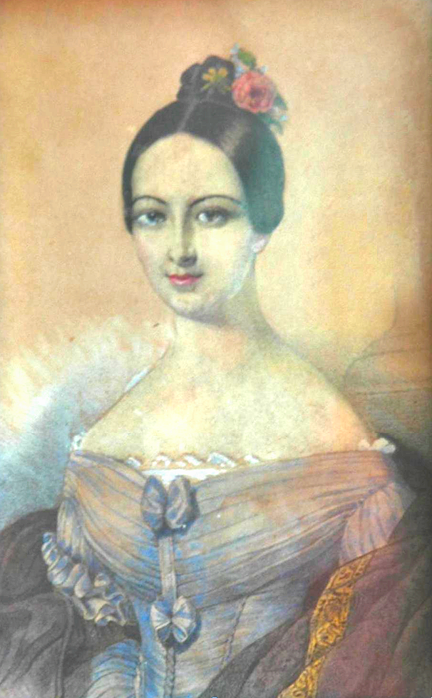 Baroness Amalia von Dyhrn, unknown artist, 1825